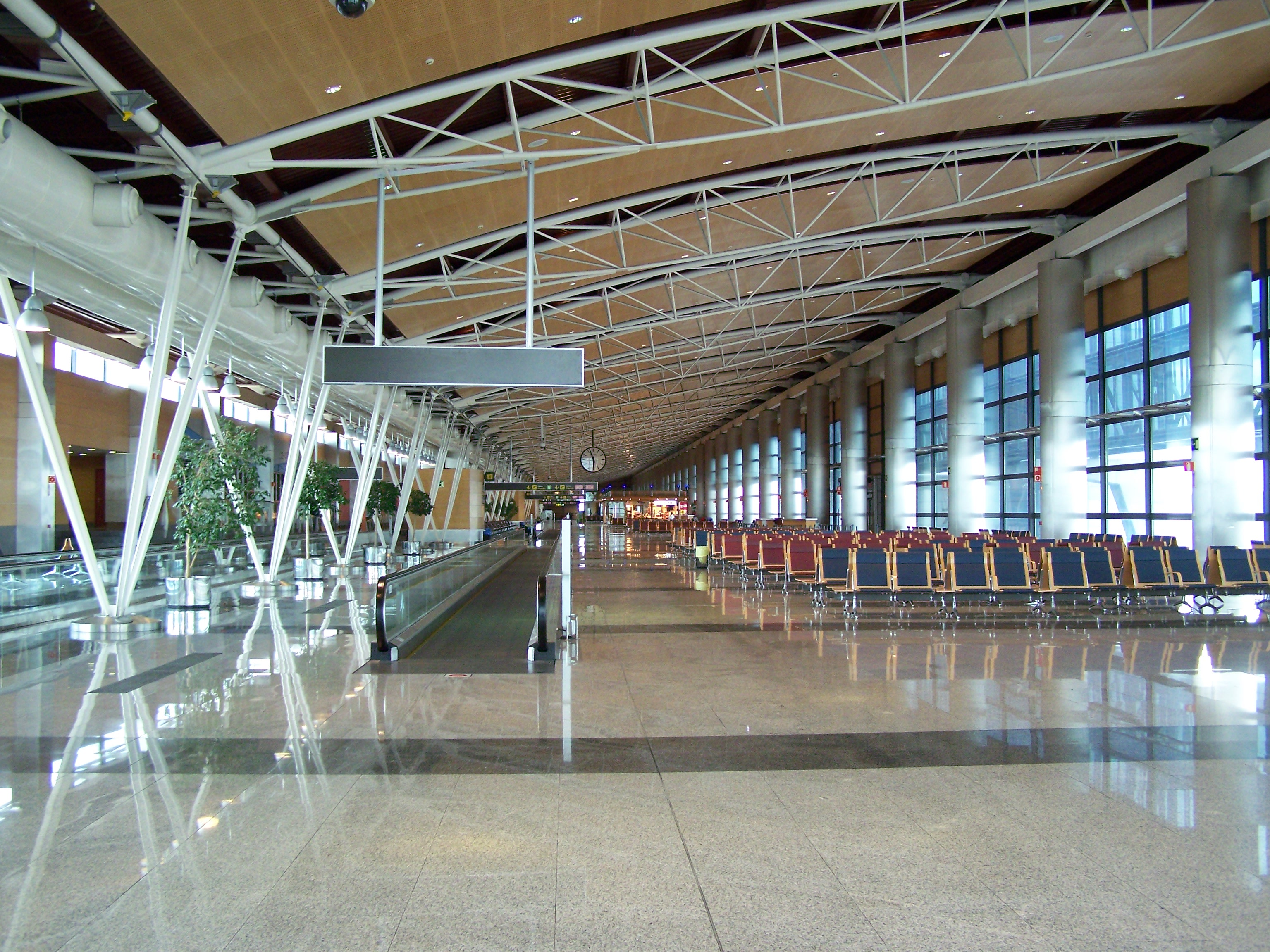 Empty interior of Barajas terminal 1 in 2008.